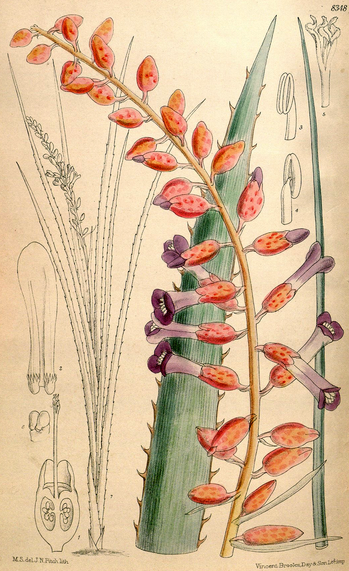 Neoglaziovia concolor